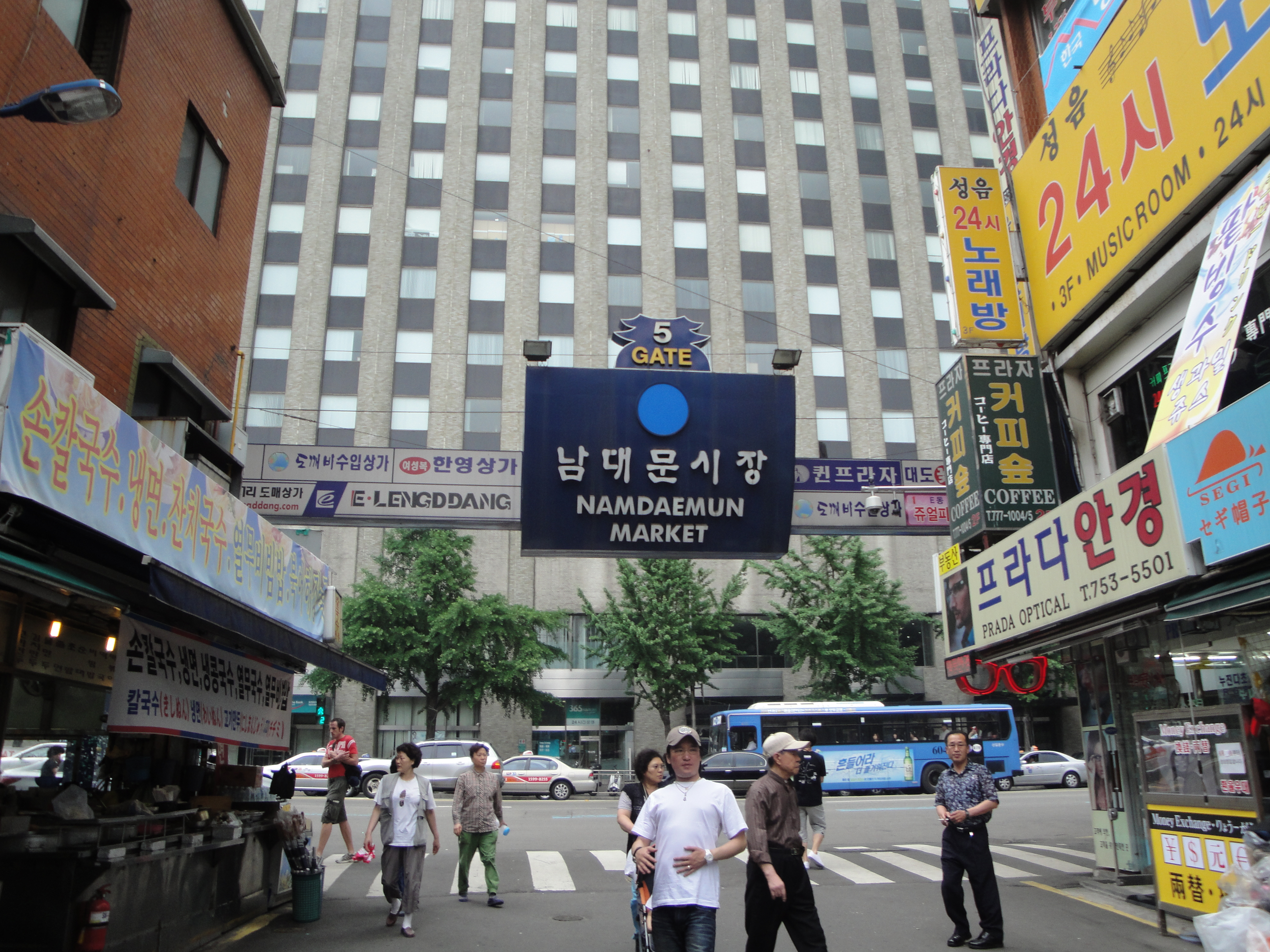 Looking south out of Namdaemun Market (Seoul), Gate 5.